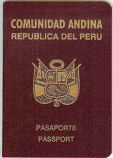 Peruvian passport cover